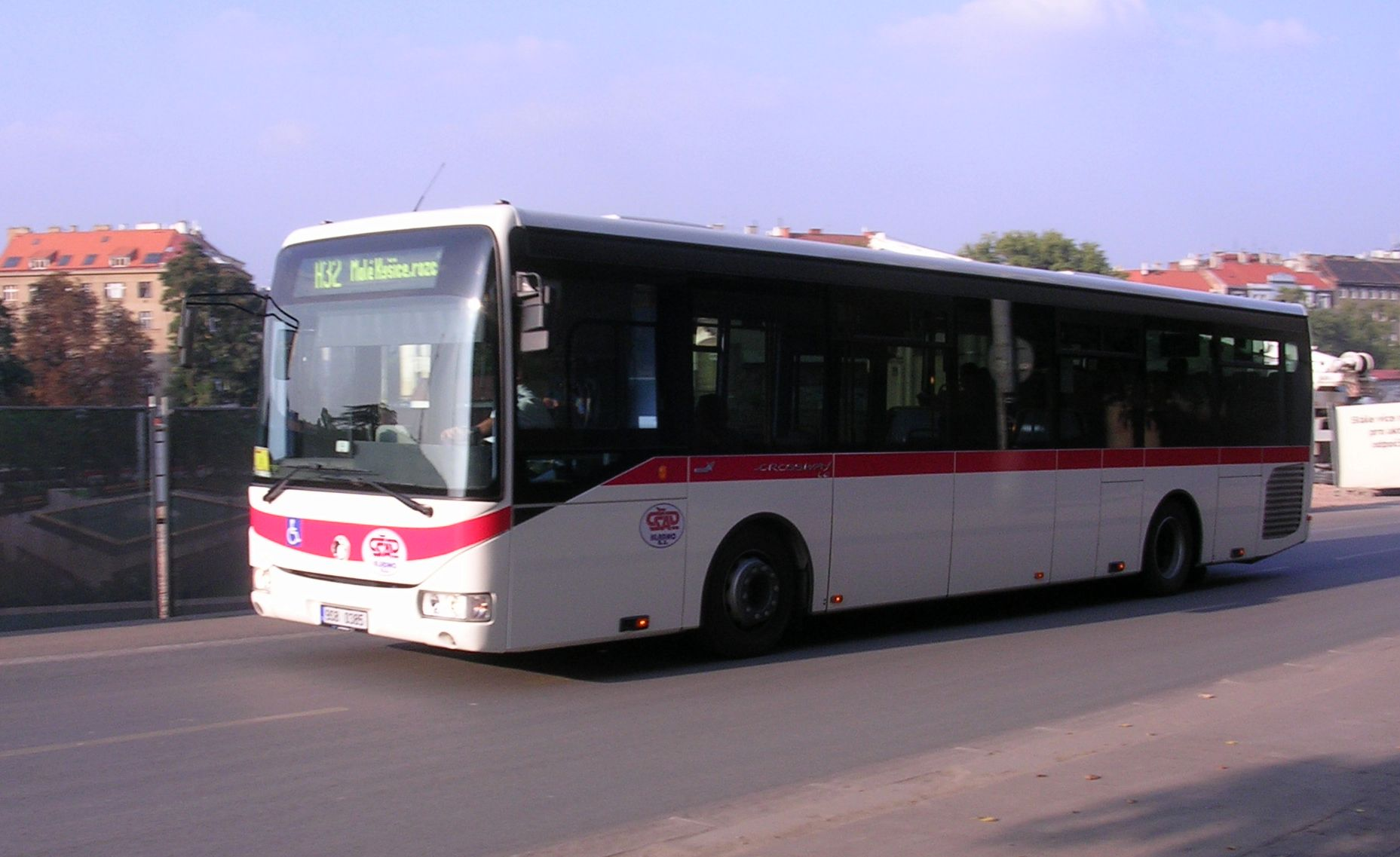 Dejvice, Prague, the Czech Republic. A suburban bus.